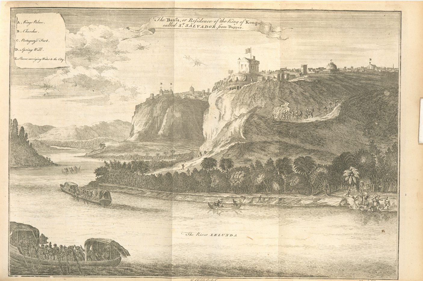 São Salvador, capital of the Kingdom of Kongo, in the late 17th century